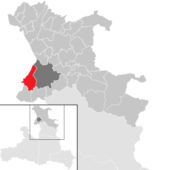 District Salzburg-Umgebung